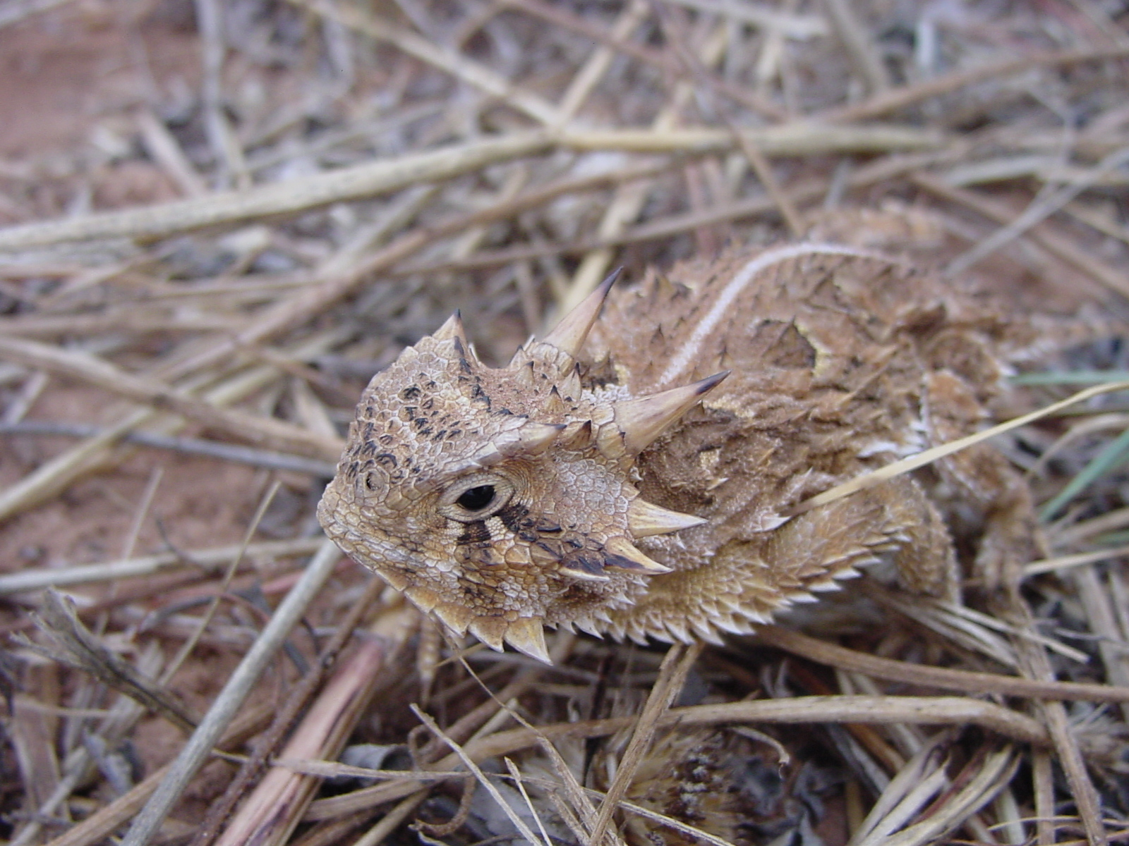 Texas Horned Lizard